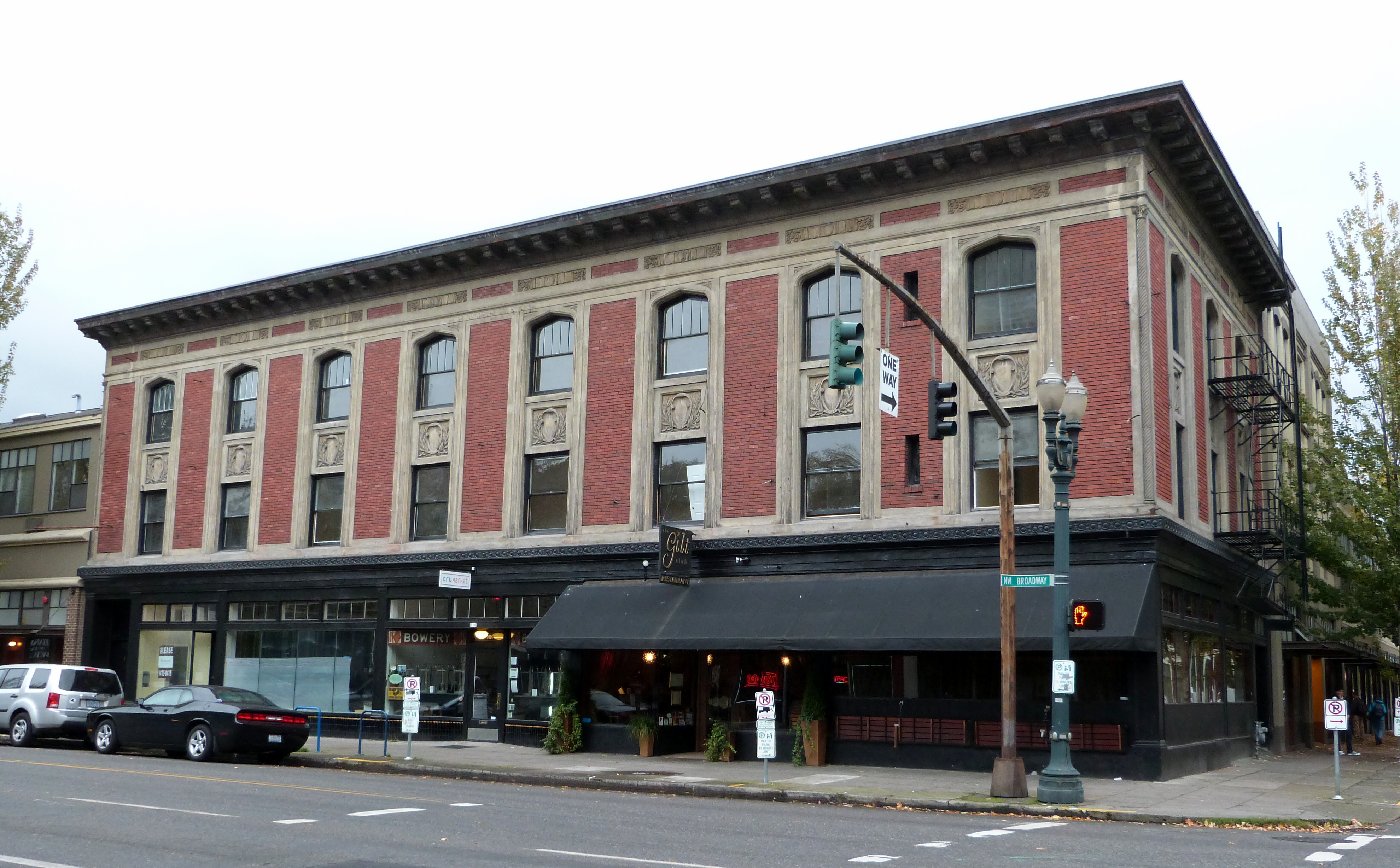 The historic Sengstake Building (built 1914), located at 310 Northwest Broadway in Portland, Oregon, United States, is listed on the US National Register of Historic Places.